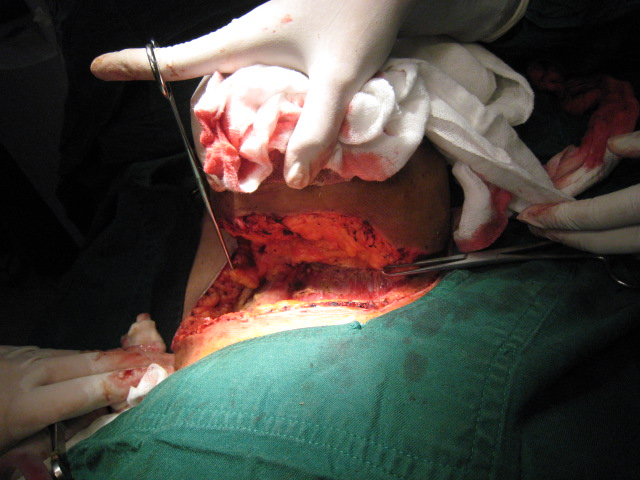 In Modified Radical Mastectomy, such as in this operation, the pectoralis muscle is left intact. Breast tissue (with tumor) is dissected off along the pectoralis fascia plane